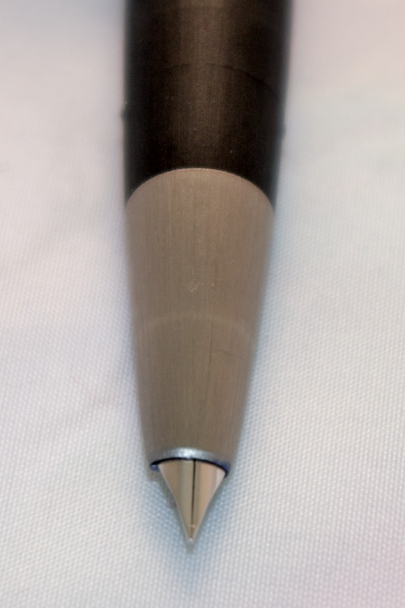 The nib close up of Lamy 2000. The black plastic used in the pen body is Polycarbonate branded as Makrolon by Bayer.